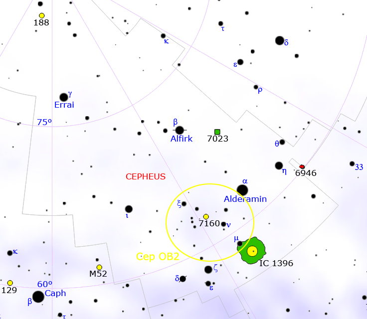 Map of Cepheus OB2